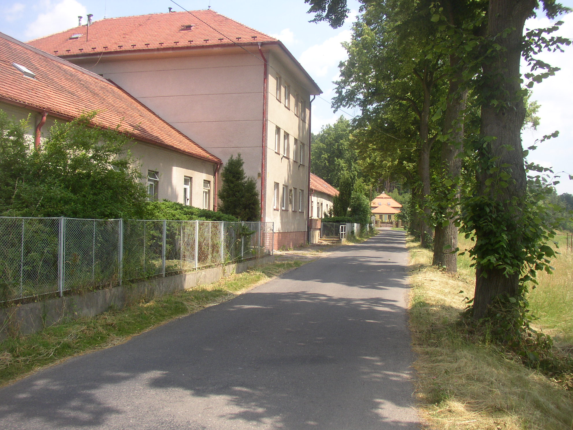 Former spa buildings (later a boarding house and barracks) along thoroughfare in Dobrá Voda, nowadays part of Březnice town, Příbram District, Czech Republic.